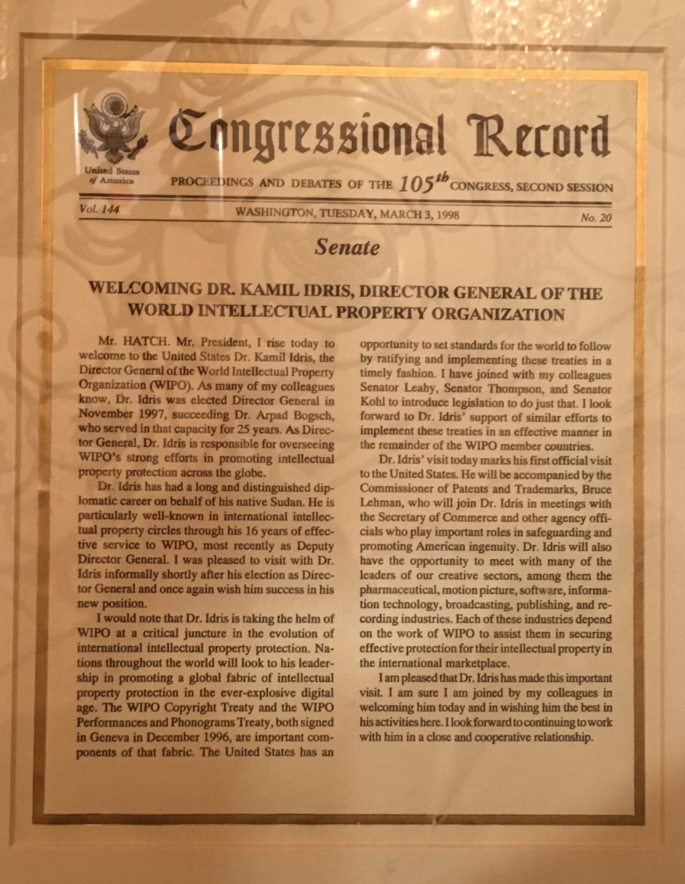 Congressional Record